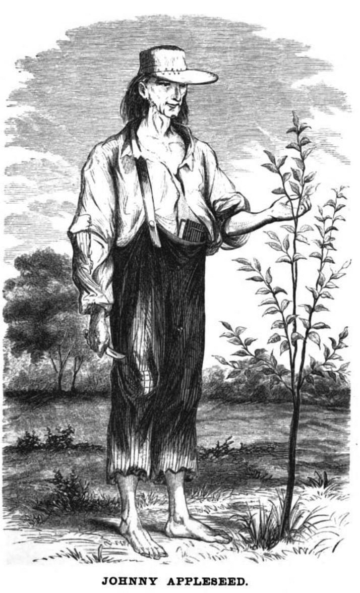 Drawing of Jonathan Chapman, aka Johnny Appleseed.